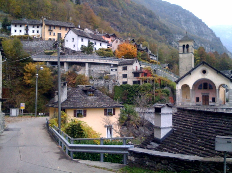 View of Cevio, Ticino, Switzerland